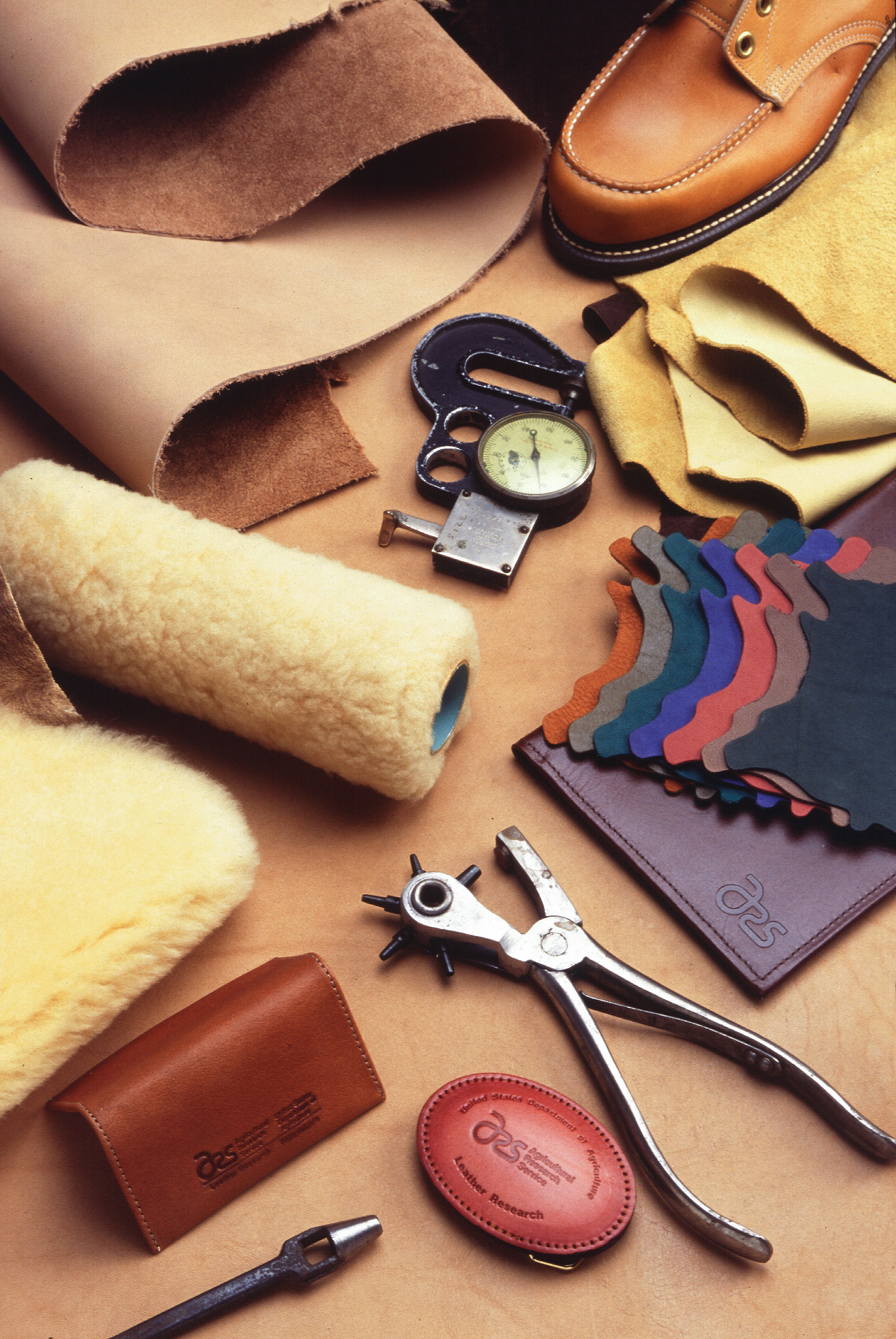 Leather-making is an ancient craft, but it's met up with some state-of-the-art technology. Electron beam radiation, we've found, can replace the salt solutions now used to kill bacterial growth-much to the benefit of the environment. Not only is brine curing corrosive to equipment; it contributes to water pollution. We also found a way to reduce the number of poor-quality hides that make their way into leather processing. Laser light-scattering photometry can be used to evaluate hides according to the orientation of their fibers. High-tech detective work has tracked down a cause of shoemaking woes. One type of leather, which broke under the stress of manufacture, was found to have a genetic defect that's specific to certain Hereford cattle. It was ARS researchers who identified cockle, a seasonal flaw of sheepskin, as the work of a parasitic insect called keds. Once they realized that keds not only lowers the value of the skin but also causes sheep to grow more slowly, sheep farmers began treating their herds to control infestations.